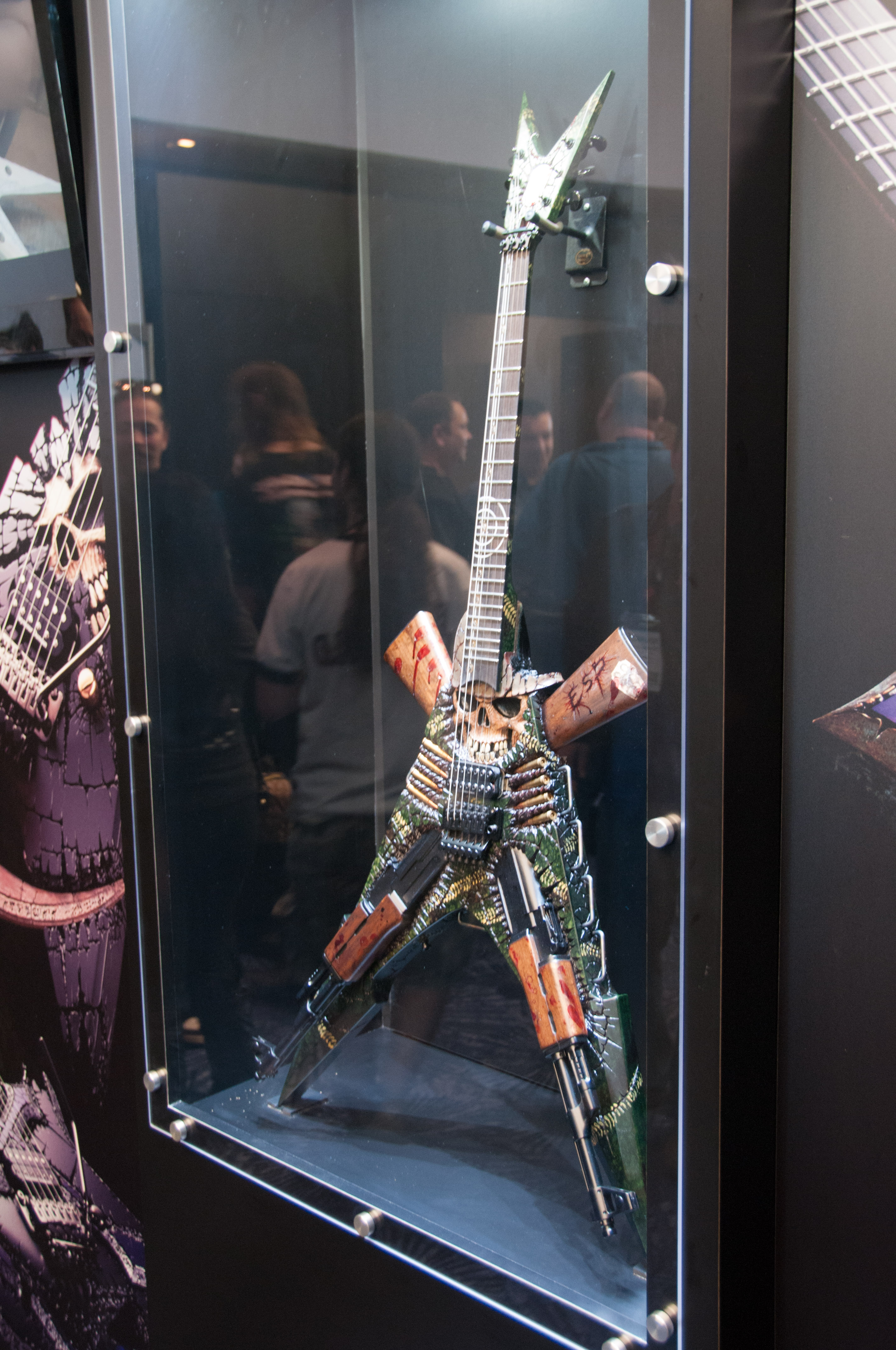 ESP Custom Shop "Ghost Soldier" by Masao Ohmuro “Seems like a waste of two perfectly good AK's, but who am I to judge?”